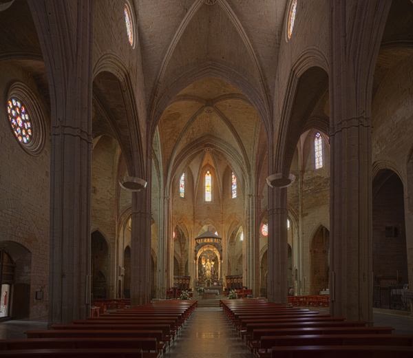 L'Església de Santa Maria; Cervera, Catalunya, Lleida, Spain; nau central; Ref: PM_086721_E_Cervera; interior; Photographer: Paul M.R. Maeyaert; © Paul M.R. Maeyaert; ; Cultural heritage; Europeana; Europe/Spain/Cervera